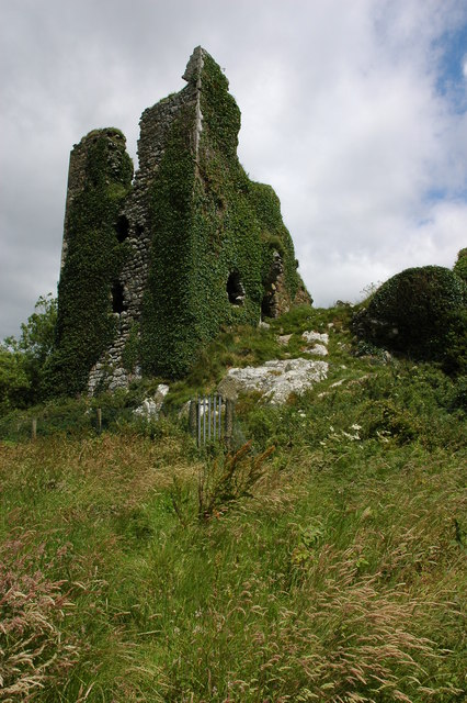 Dunhill Castle The ruins of Dunhill Castle overlooks a river valley near Annestown. The castle was destroyed by Cromwell in 1649.